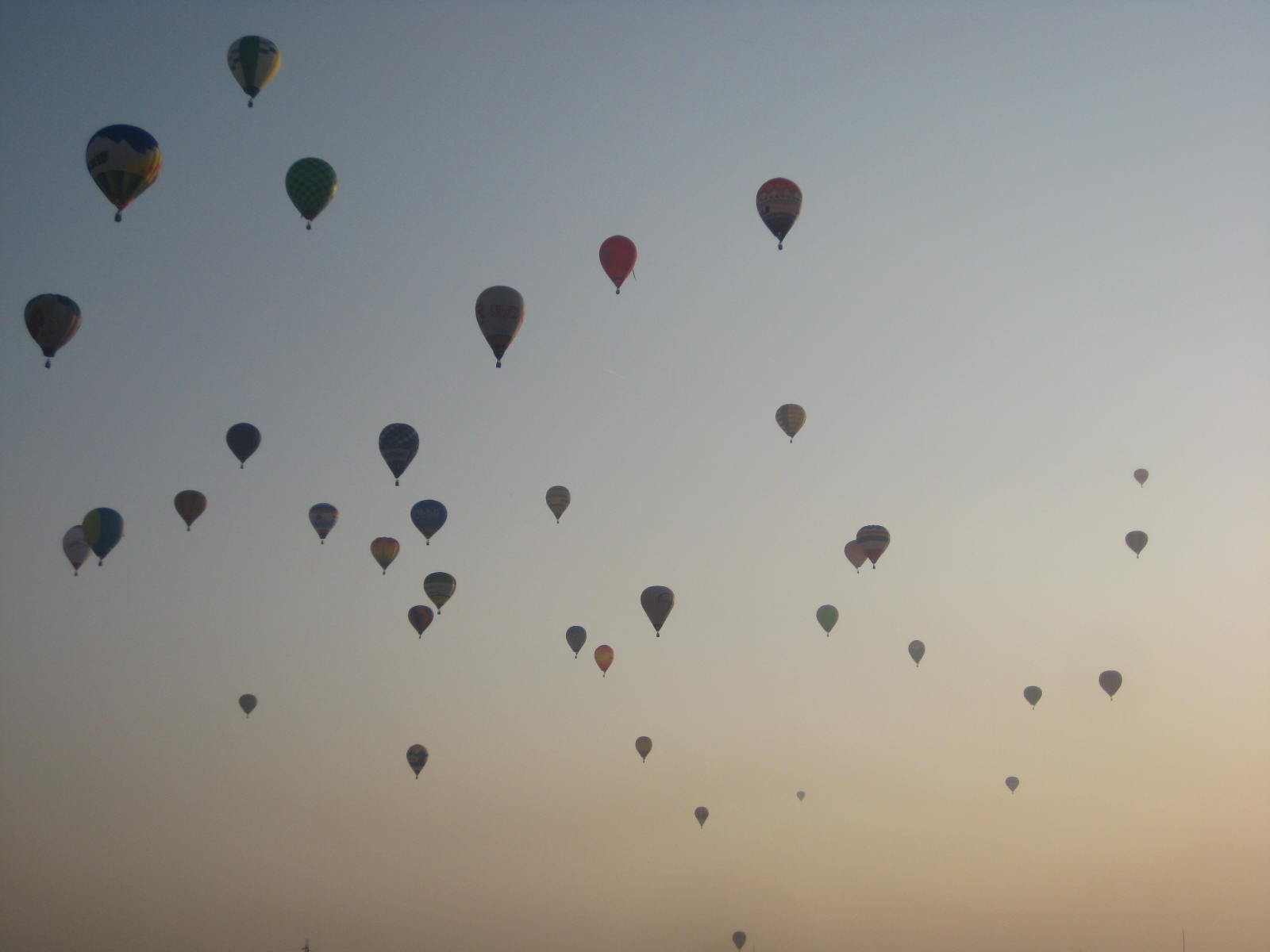 Saga International Balloon Fiesta